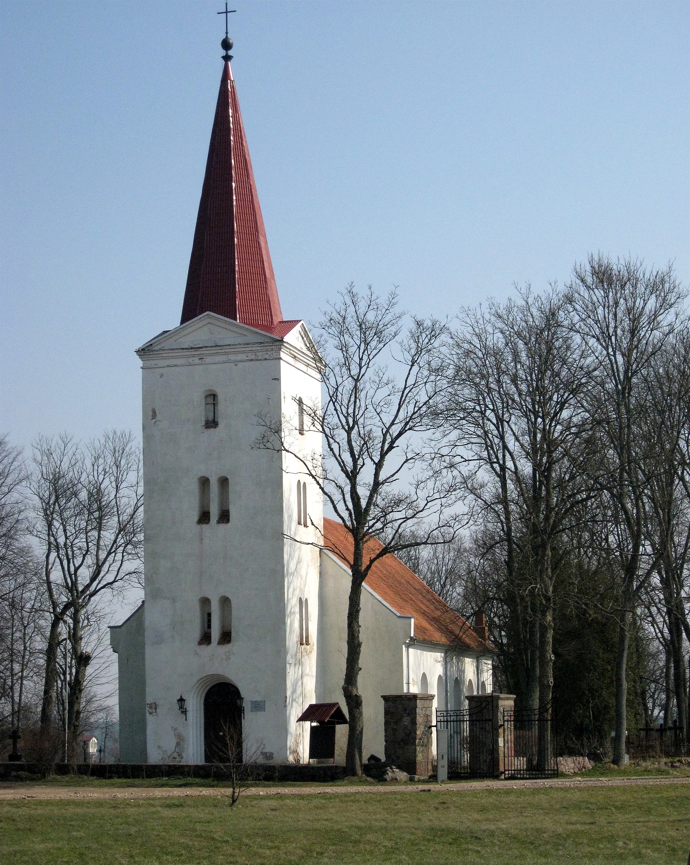 Kandava Evangelical Lutheran Church